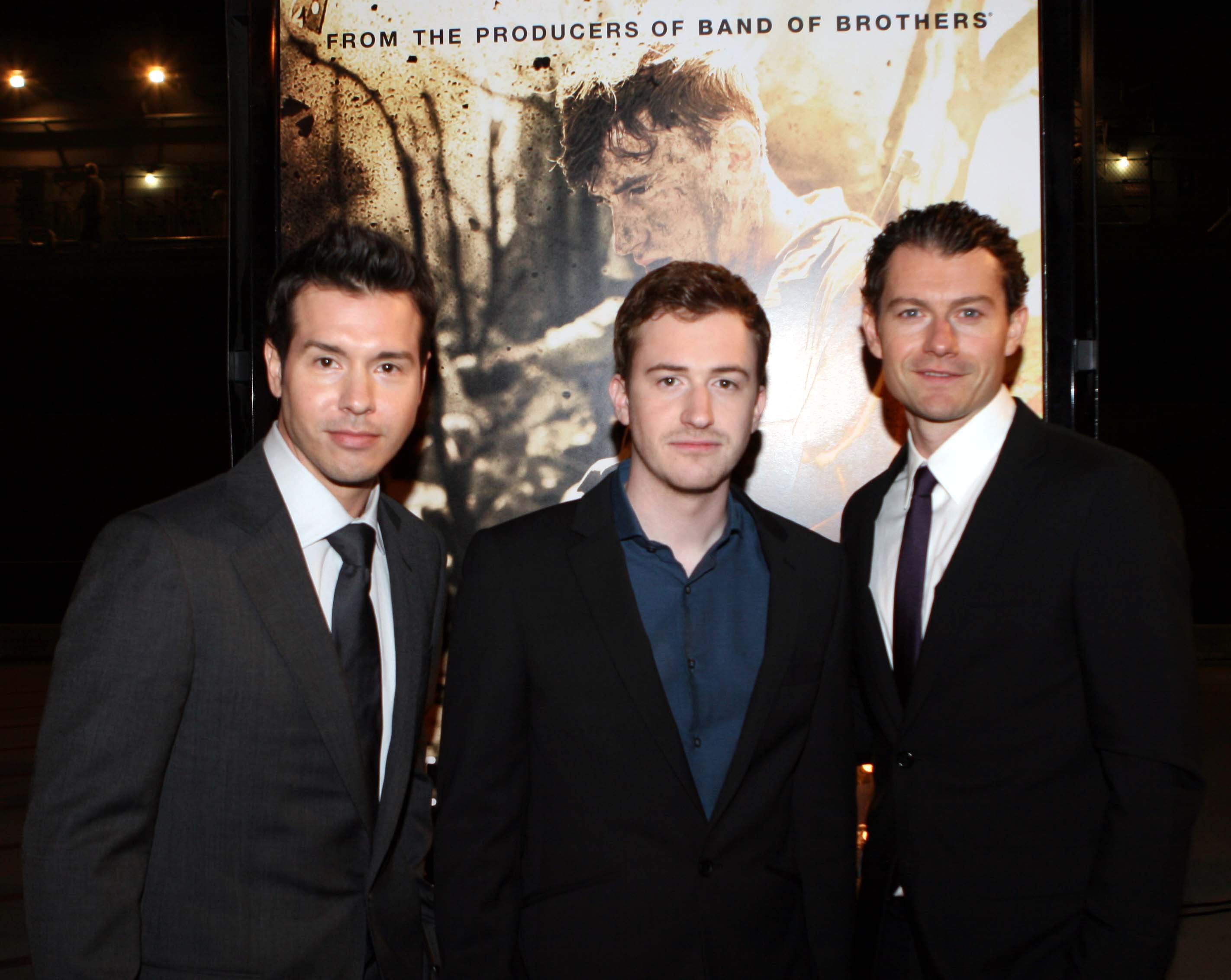 John Seda, Joe Mazzello and James Badge Dale, the stars of HBO's 10-part miniseries presentation "The Pacific" pose for pictures at the San Diego premiere of the show on the USS Midway, Feb. 25. San Diego's local military leaders, veterans and World War II veterans were invited to the USS Midway for a special screening of the series.